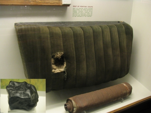 Photo of the Benld meteorite and car seat with meteorite hole. I took the picture and modified it.